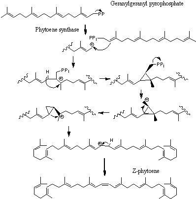 Carotenoid synthesis